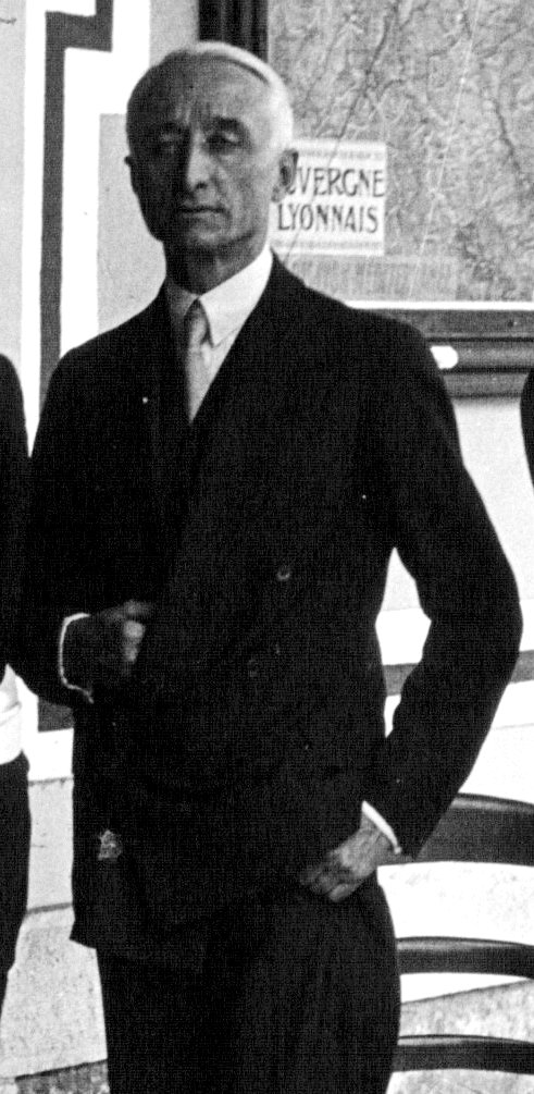 Picture of Riccardo Gualino